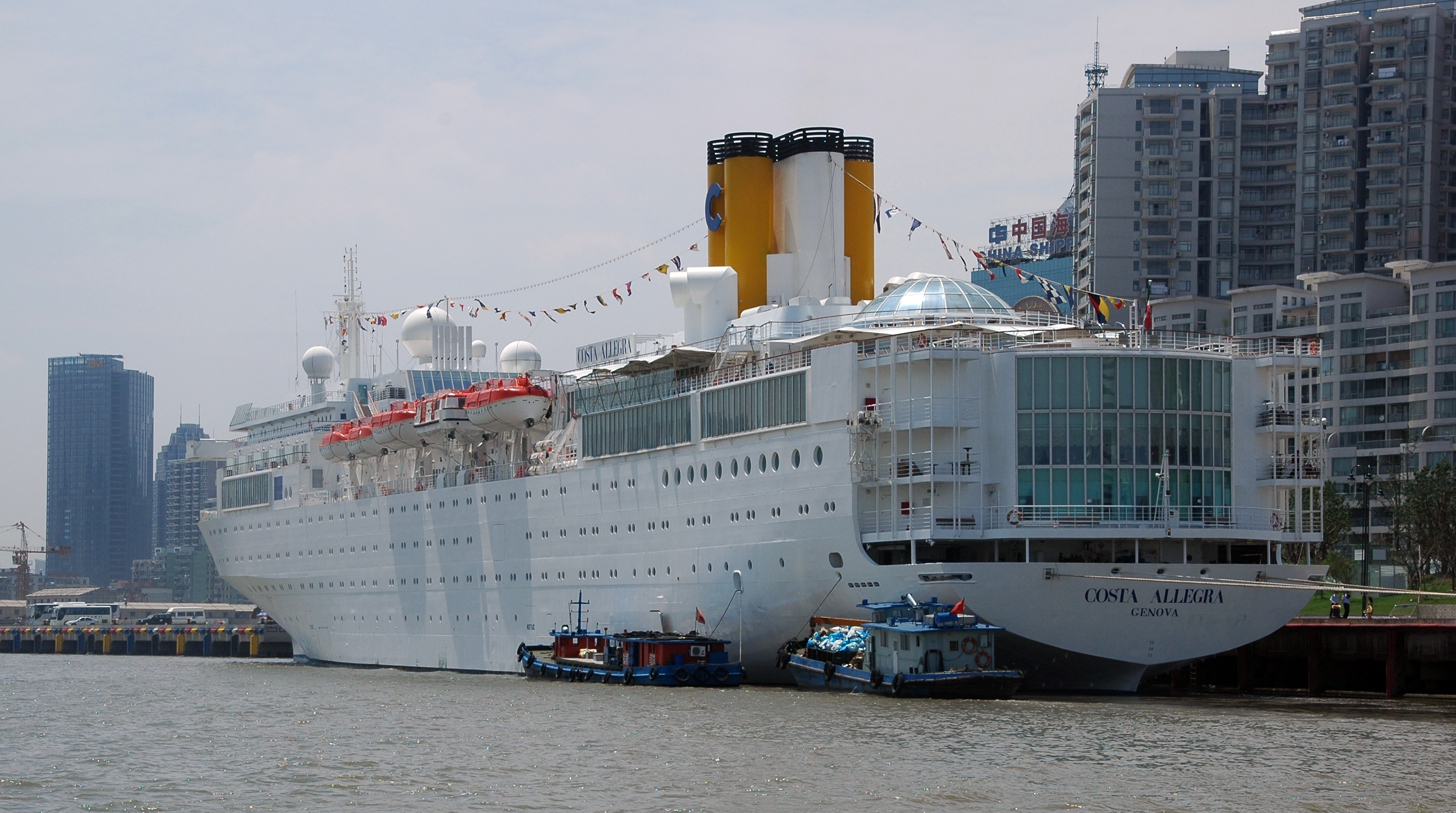 Costa Allegra cruise ship on the Huang Pu river, Shanghai, China